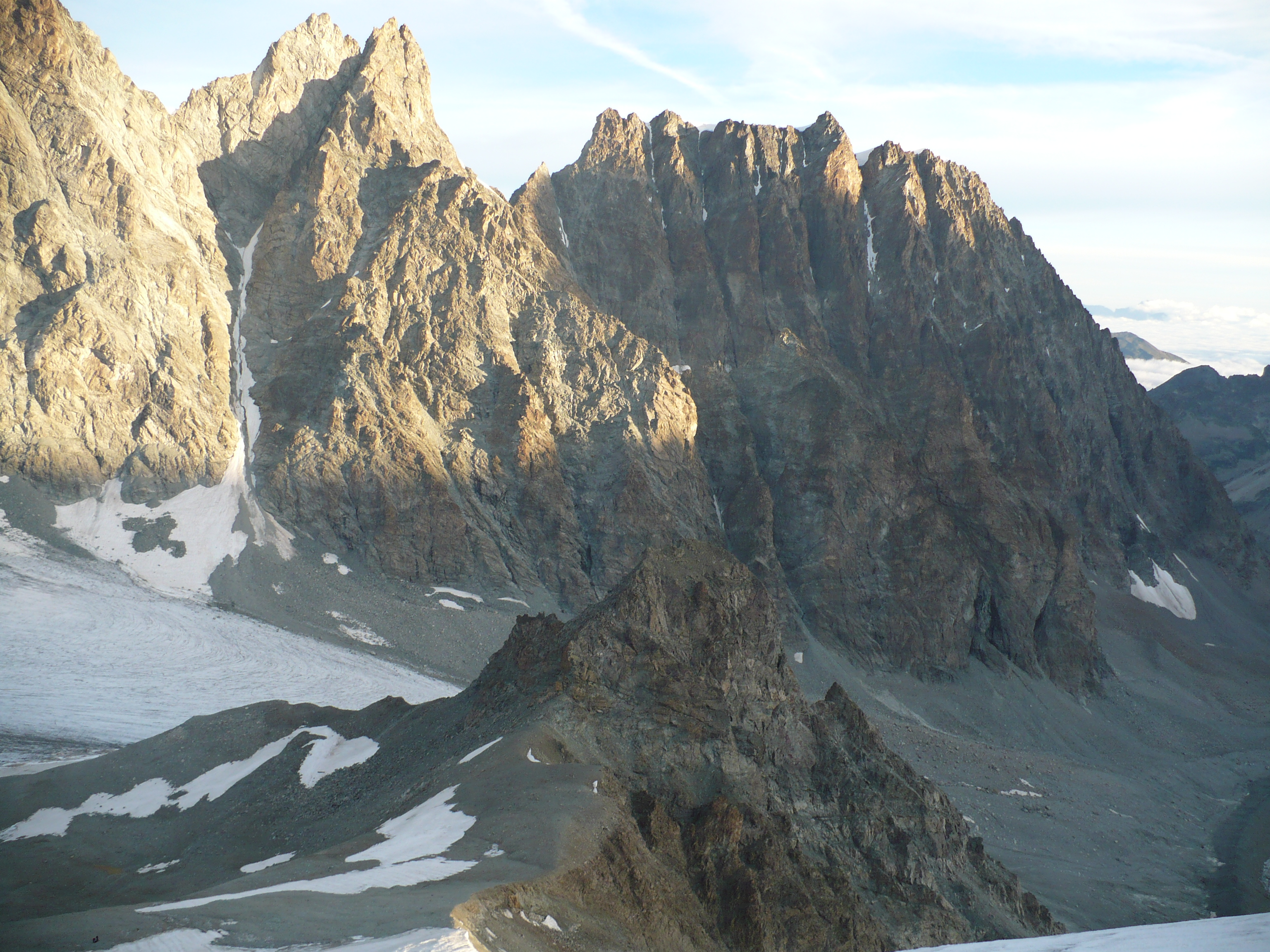 Mont Collon - Pennine Alps - Switzerland